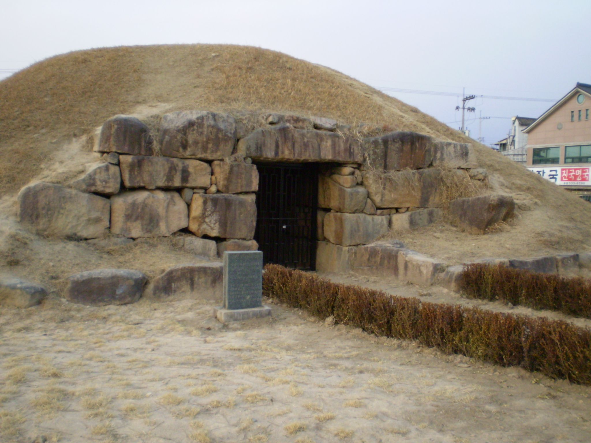 View of the seokbinggo, Joseon-era ice storage house, in Changnyeong, Gyeongsangnam-do, South Korea.